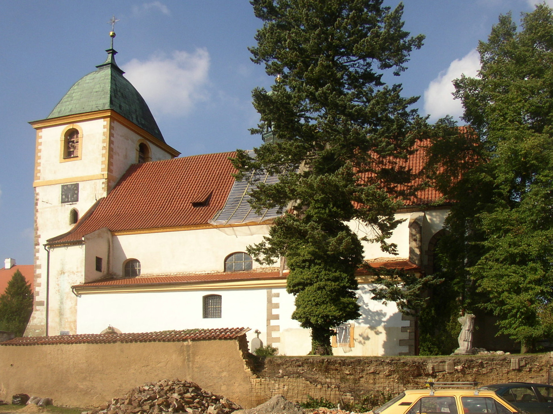 Church of Nativity of Virgin Mary in Lesser Quarter of Starý Plzenec, Plzeň-City District, Czech Republic.